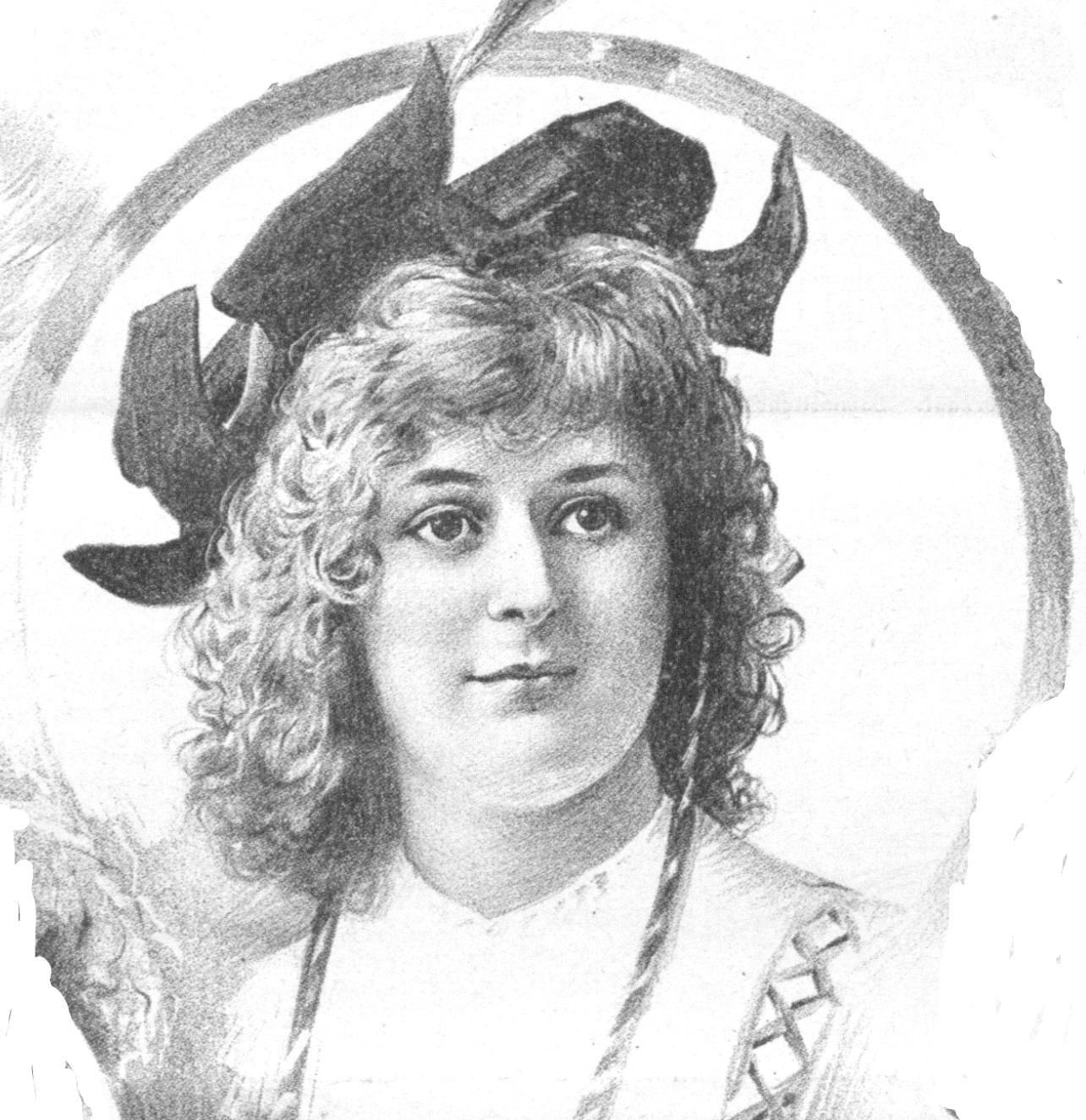 Portrait of Garda Irmen (1874-1938), Austrian and German actress. Cropped from a gallery of members of Hamburg Theatre.